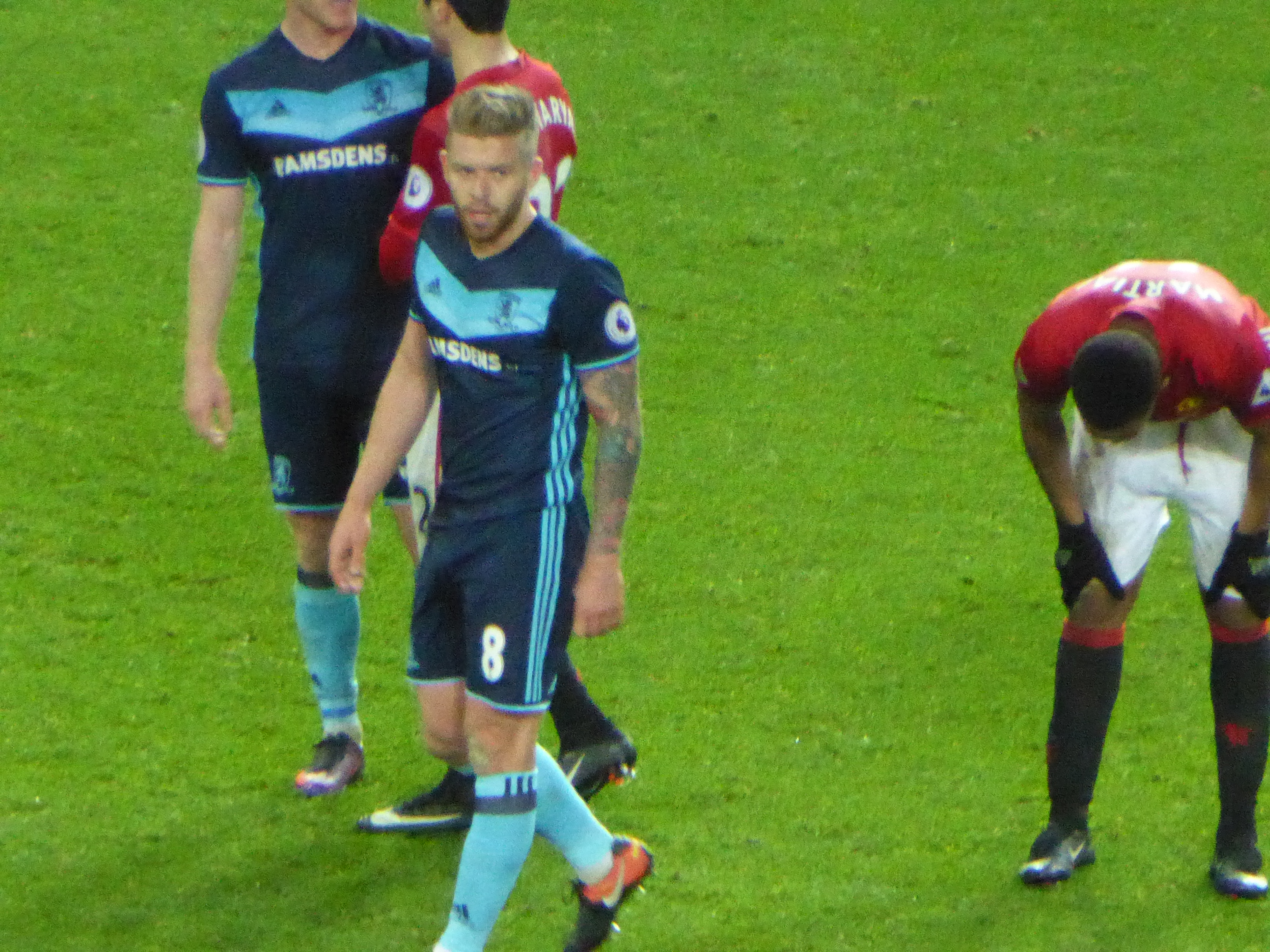 Manchester United v Middlesbrough (2-1), Premier League, Old Trafford, Manchester, Greater Manchester, England, December 2016